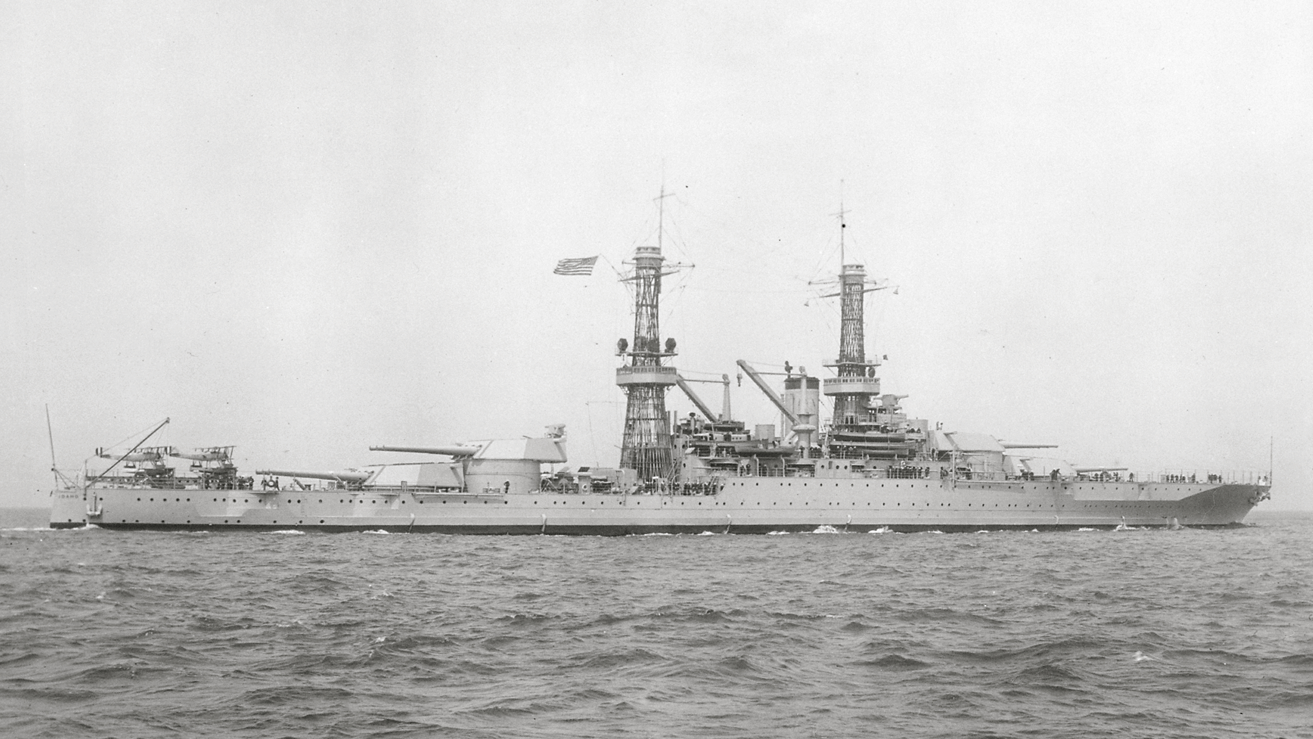 USS Idaho